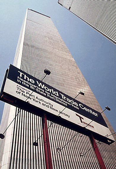 World Trade Center twin towers, owned by the Port Authority of New York and New Jersey (PANYNJ).Alternate description: Overlooking the Hudson River in Lower Manhattan, the Towers of the World Trade Center Soar Skyward to a Height of 1,350 Feet (05/1973)